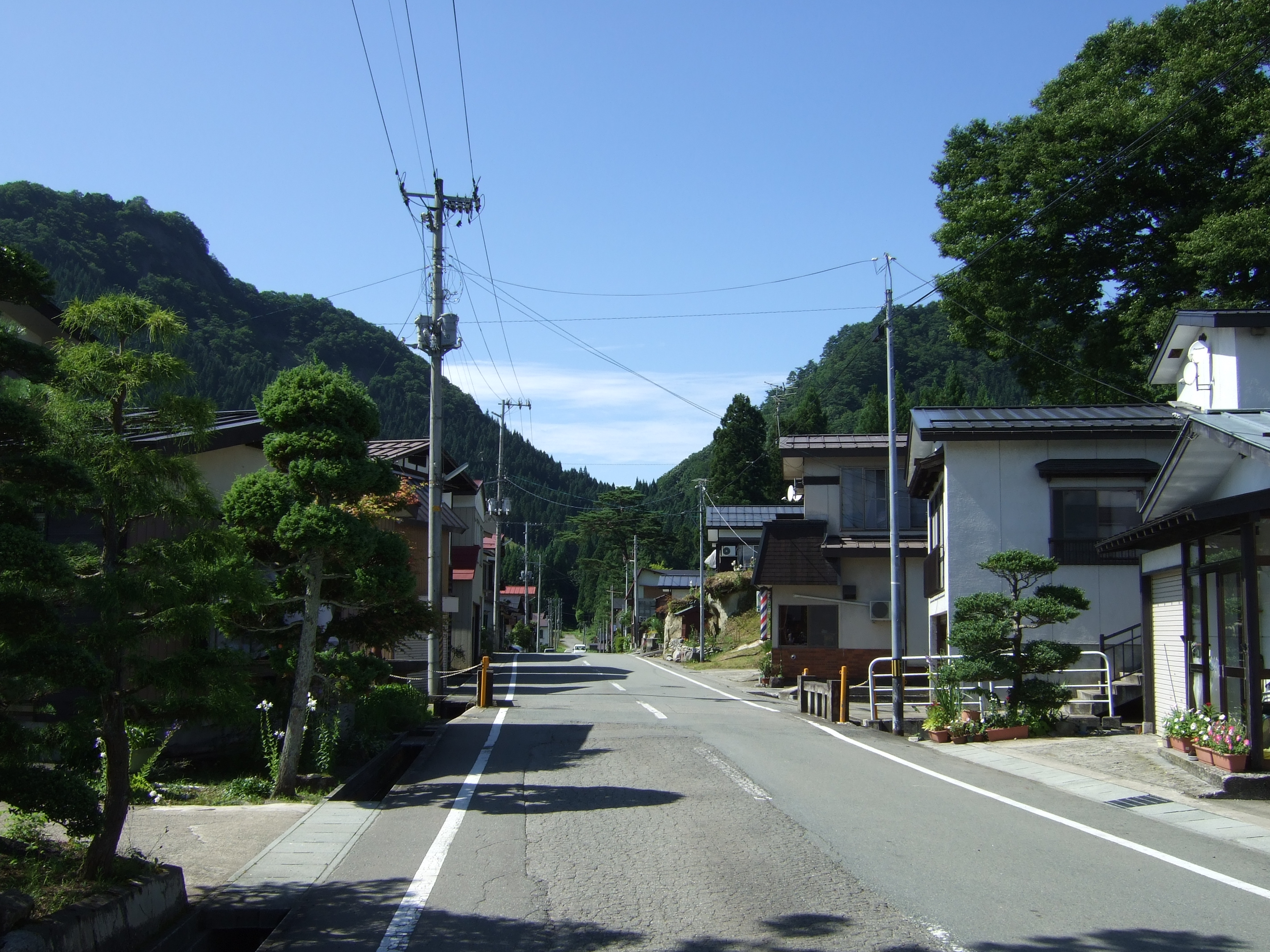 Moriai-touge (pass) via Usyuu-kaidou, between Kaneyama and Nakata in Kaneyama, Mogami district, Yamagata, Japan.